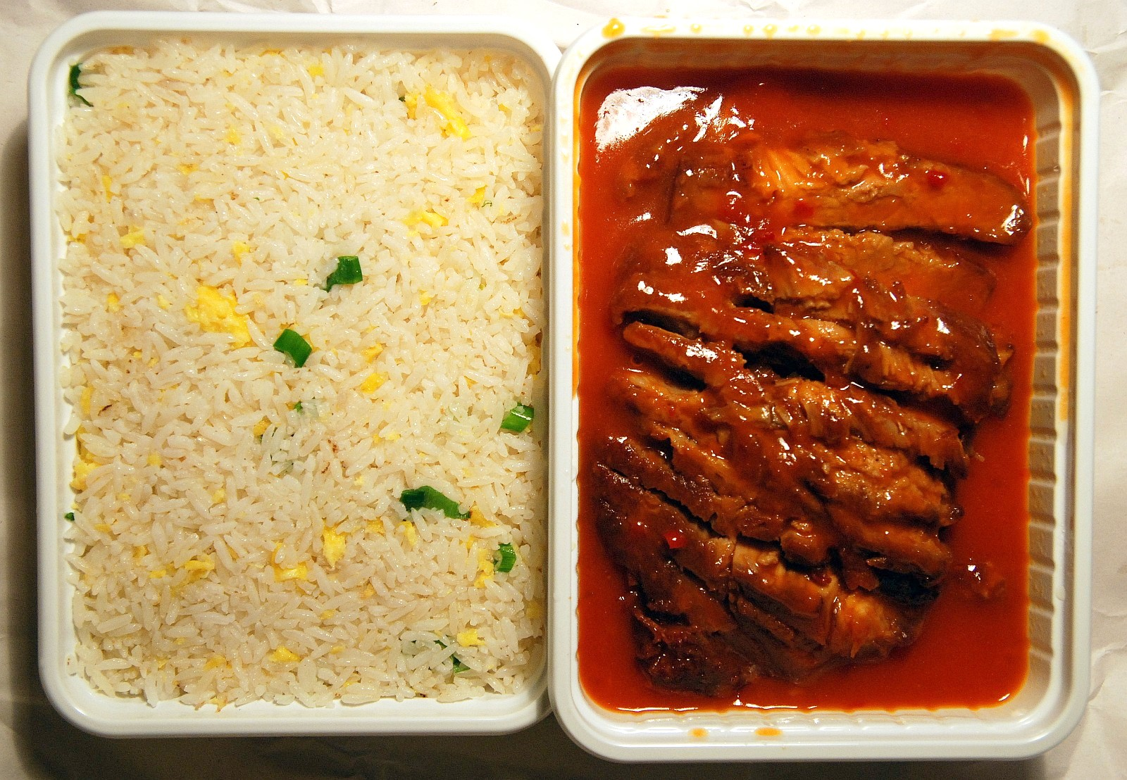 'Babi panggang speciaal met nasi' (Deep fried pork with sweet-and-sour sauce and fried rice) is a popular takeaway combination from so called 'Chinese-Indonesian restaurants' in the Netherlands. It is highly probable that this version of 'babi panggang' was invented in the Netherlands.